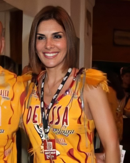 Helena Fernandes, brazilian actress, watches samba school parade during 2011 carnival.